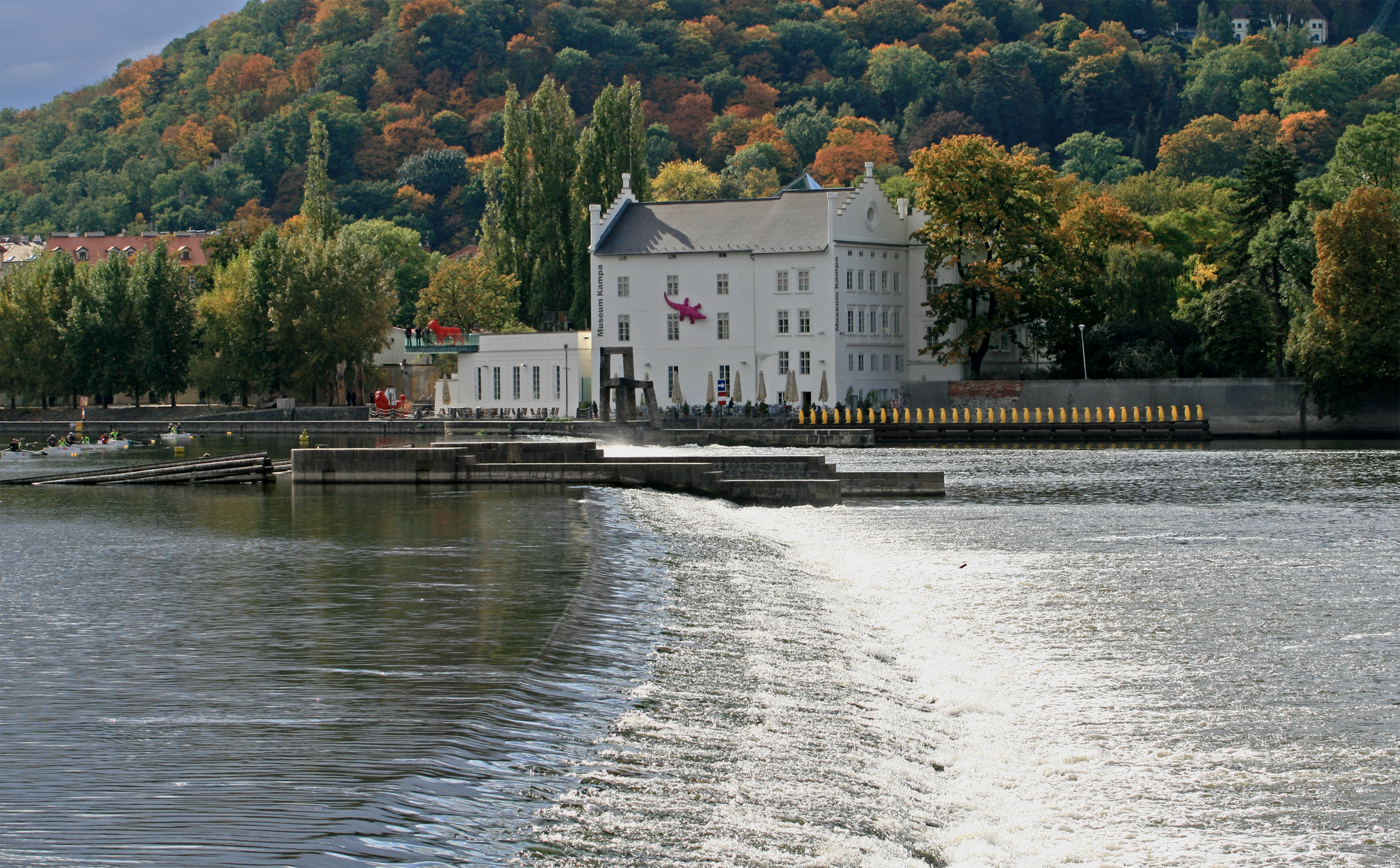 View on Kampa Museum over Vltava river in Prague, Czech Republic